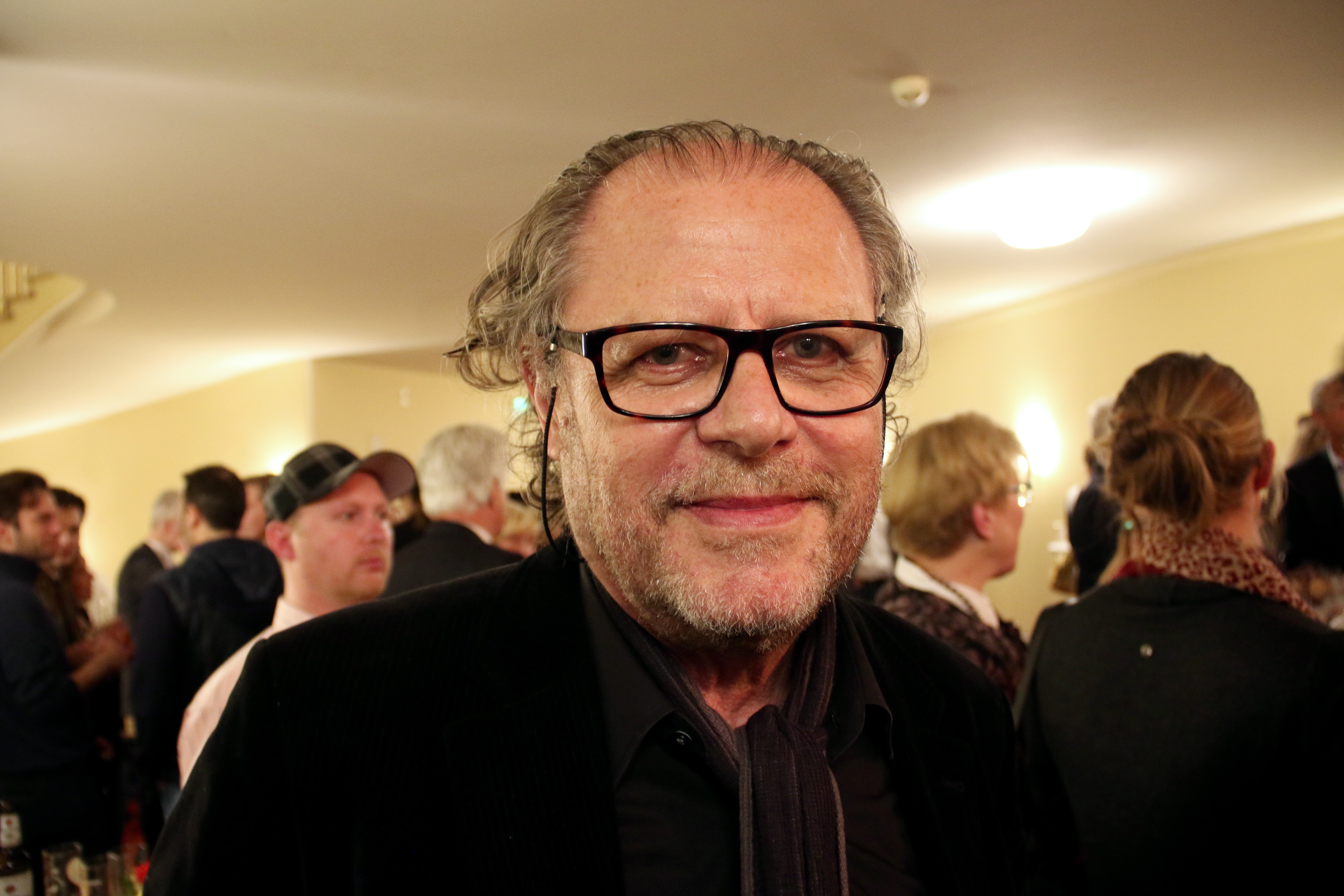 The german scenic designer Johannes Leiacker at the launching party of Don Pasquale in Düsseldorf, Germany (2017).